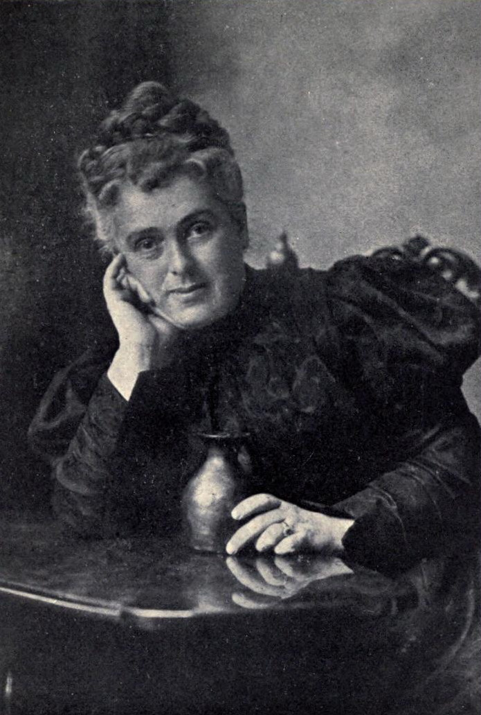 Maria Longworth Nichols Storer. From Memoirs of Theodore Thomas (1911).